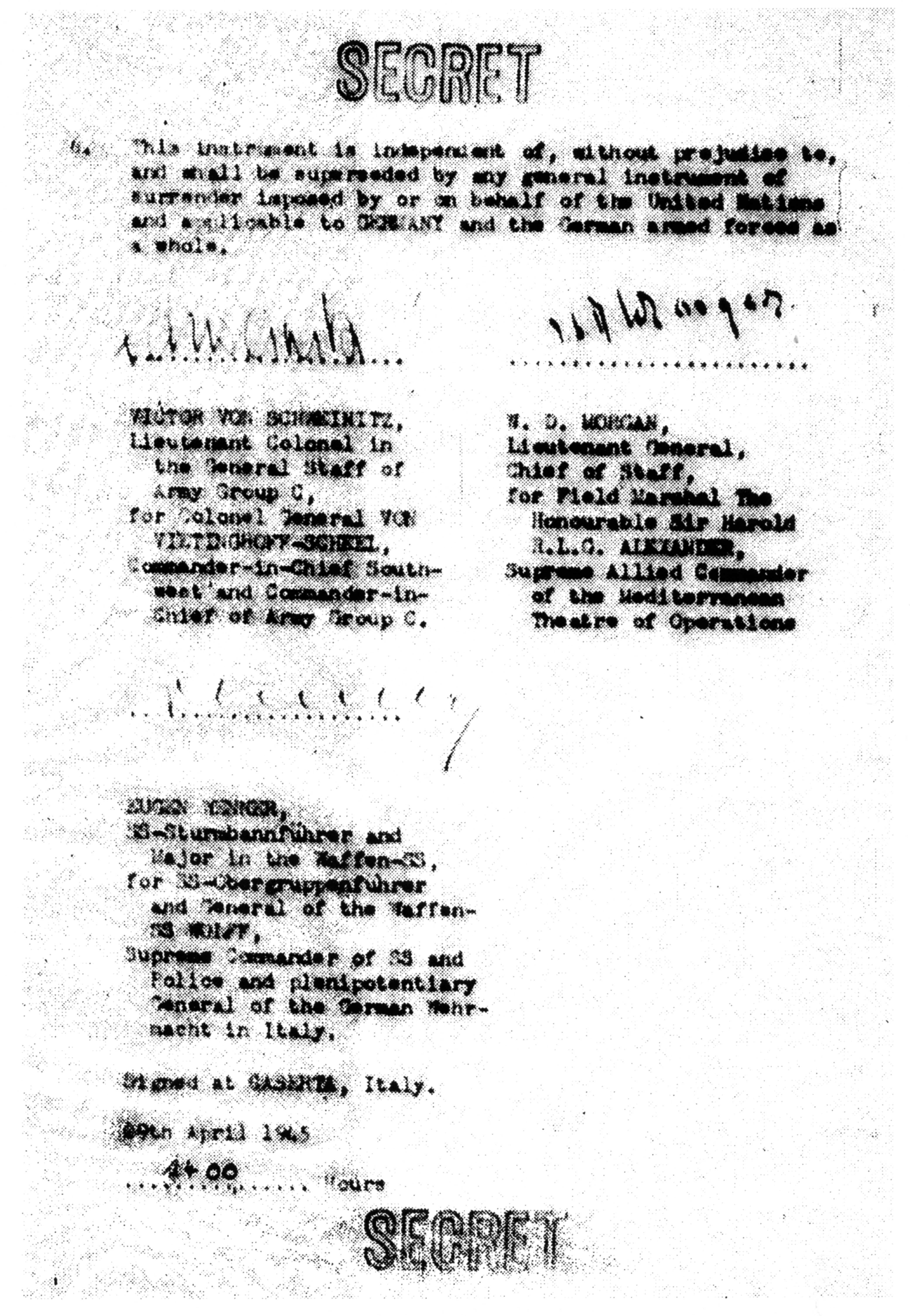 Instrument of Local Surrender of German and other forces under the comand or control of the German Commander-in-Chief Southwest (page 2 of 2)